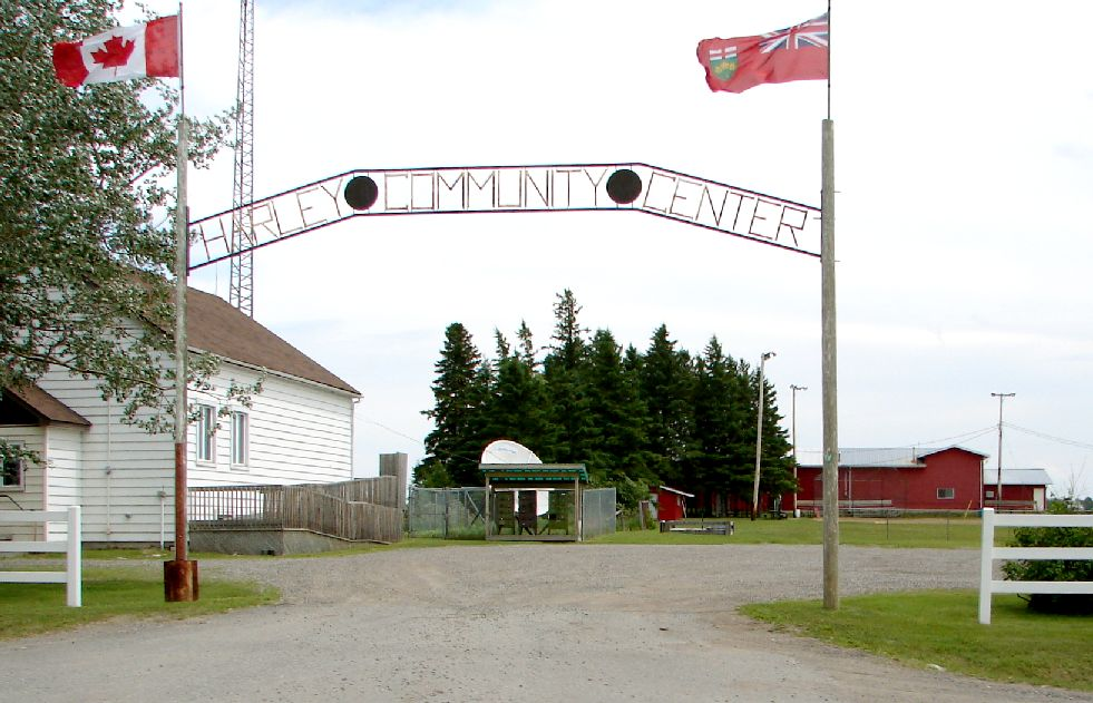 Community centre in Harley Township, Ontario, Canada